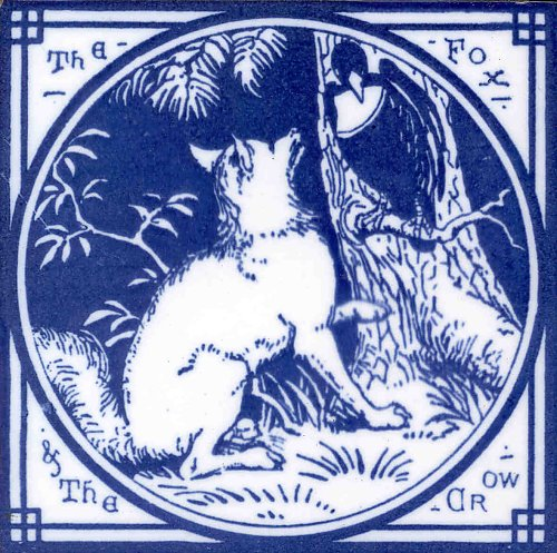 A Victorian tile illustrating the fable of The Fox and the Crow from Minton's Pottery